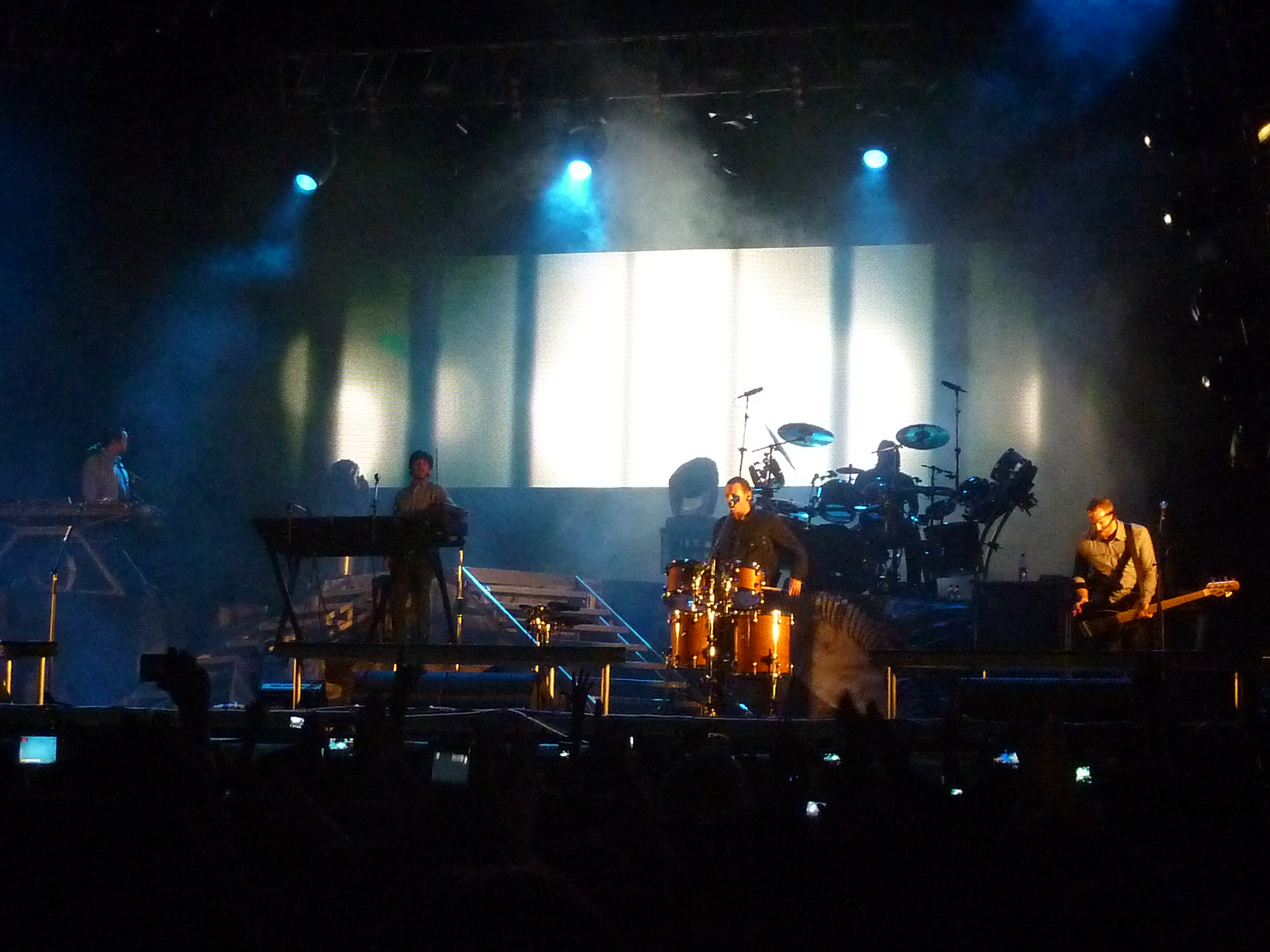 Linkin Park performing at the Maquinaria Festival 2010